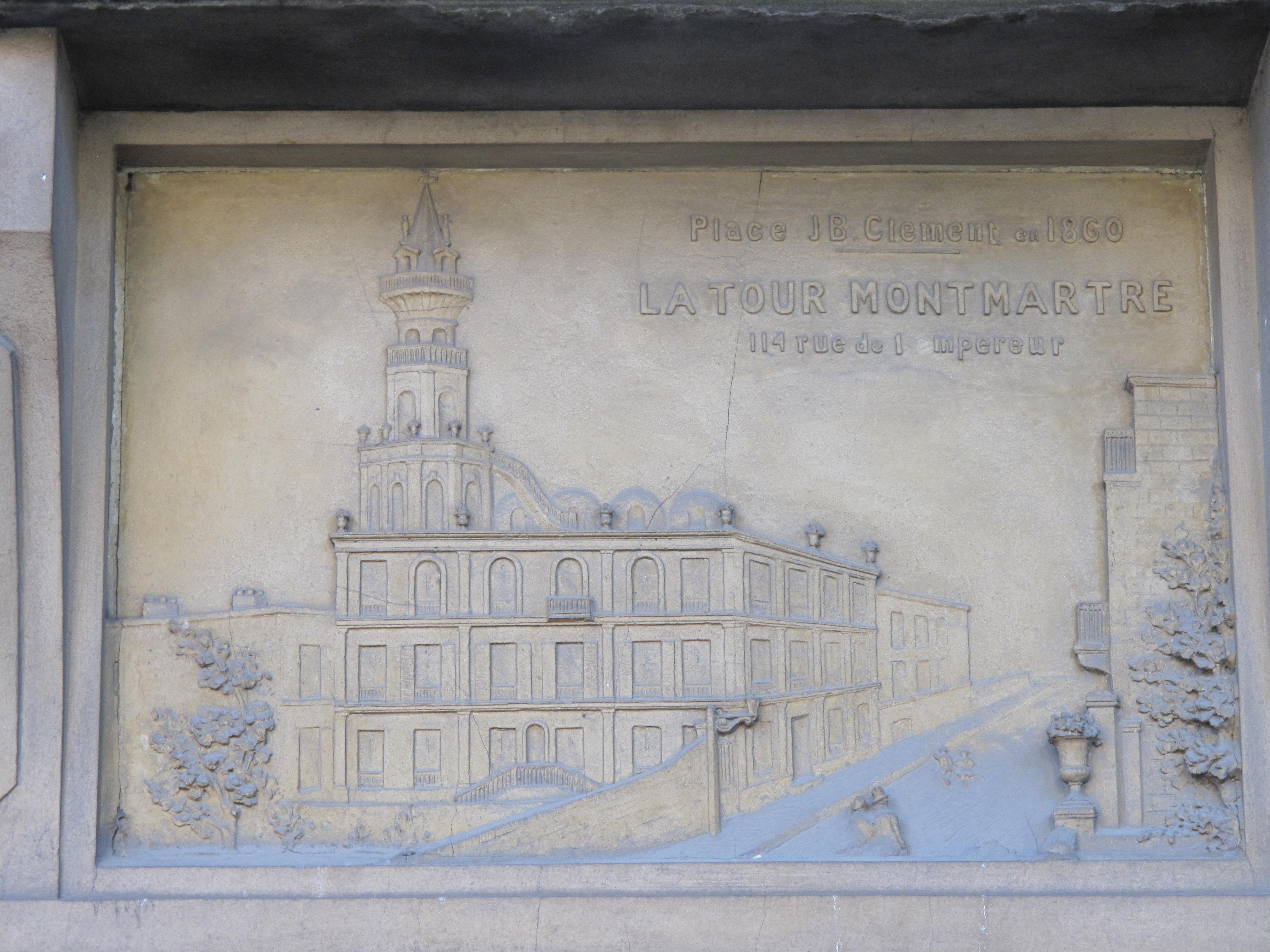 Plaque about the tour Montmartre (now destroyed) : 10 place Jean-Baptiste Clément, Paris, 18th arr. Not to be confused with the tour Solférino. The rue de l'Empereur on the plaque is now the rue Lepic.